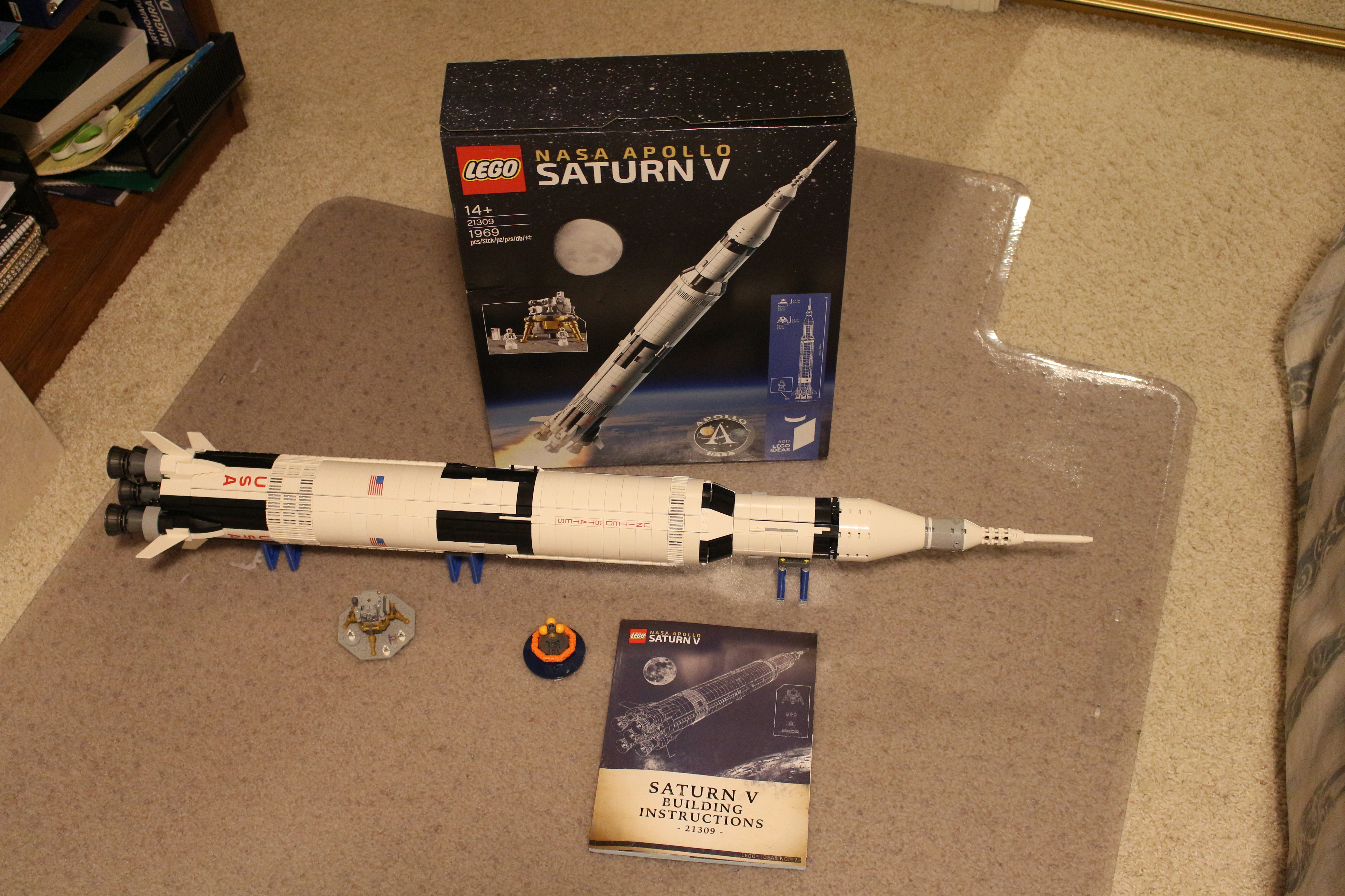 A completed Lego Saturn V rocket set.